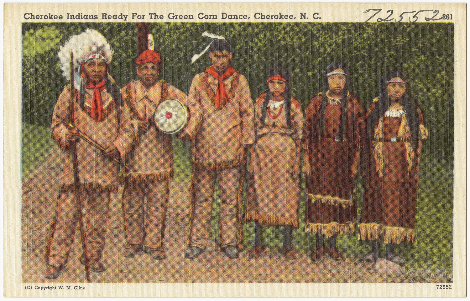 File name: 06_10_015871 Title: Cherokee Indians ready for The Green Corn Dance, Cherokee, N. C. Created/Published: Pub. by Standard Souvenirs & Novelties, Inc., Knoxville, Tenn. Date issued: 1930 - 1945 (approximate) Physical description: 1 print (postcard) : linen texture, color ; 3 1/2 x 5 1/2 in. Genre: Postcards Subjects: Notes: Collection: The Tichnor Brothers Collection Location: Boston Public Library, Print Department Rights: No known restrictions